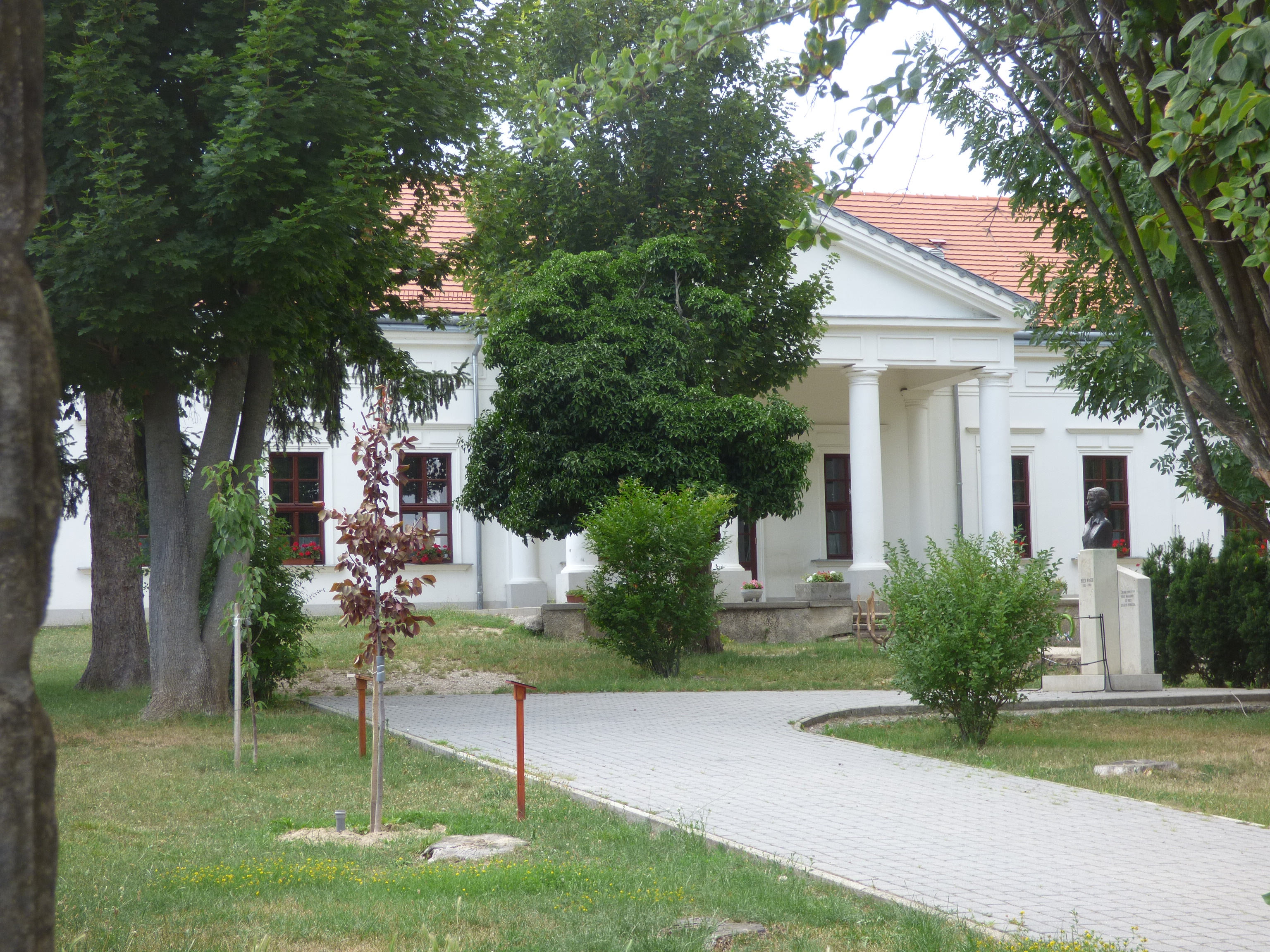 Bódi Mária Magdolna vértanúságának körülbelüli helyszíne, az egykori litéri kastély (ma iskola) udvara